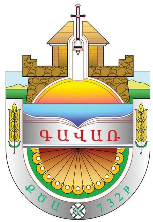 Coat of Arms of Armenian city of Gavar.